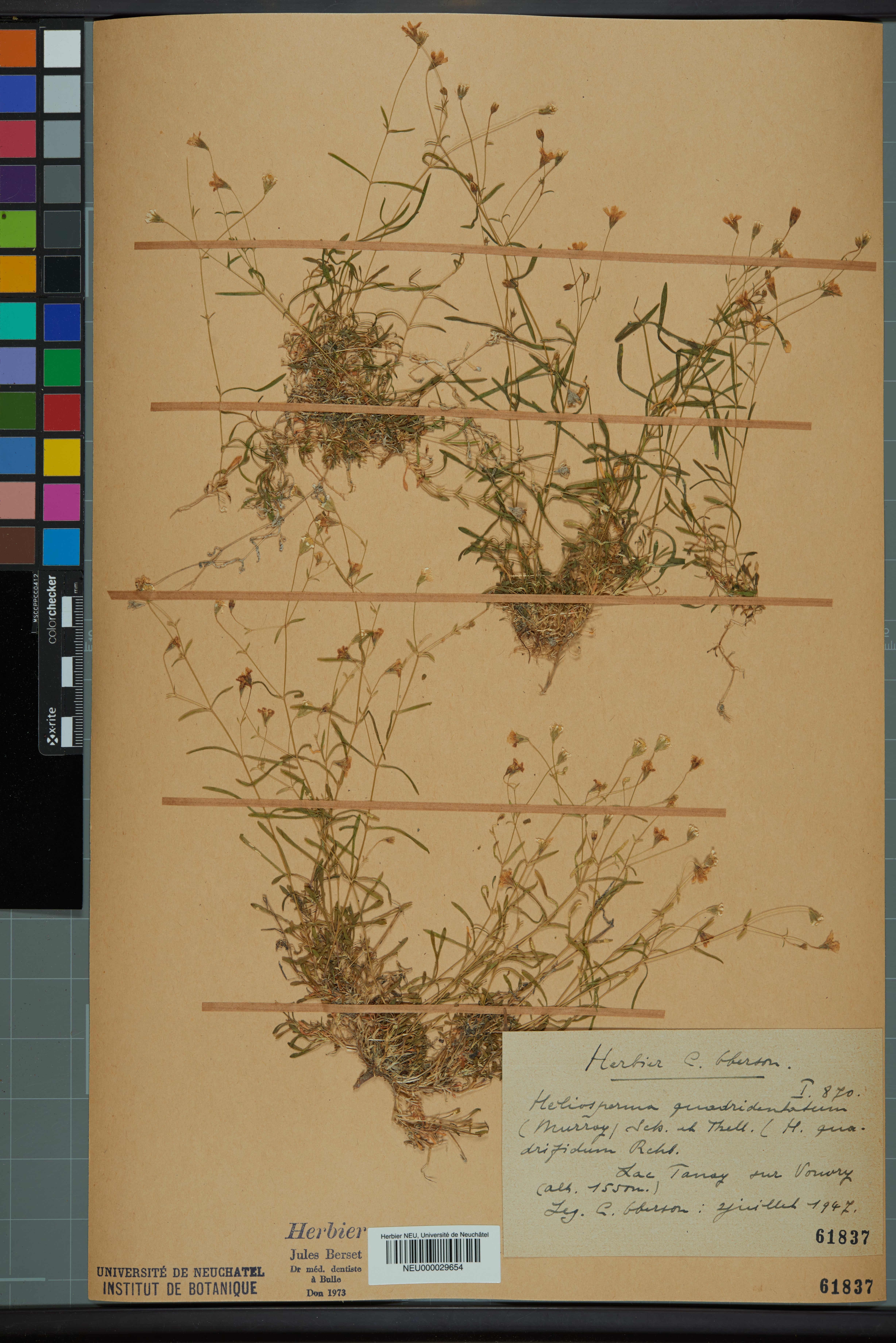 Dried pressed specimen of Silene pusilla